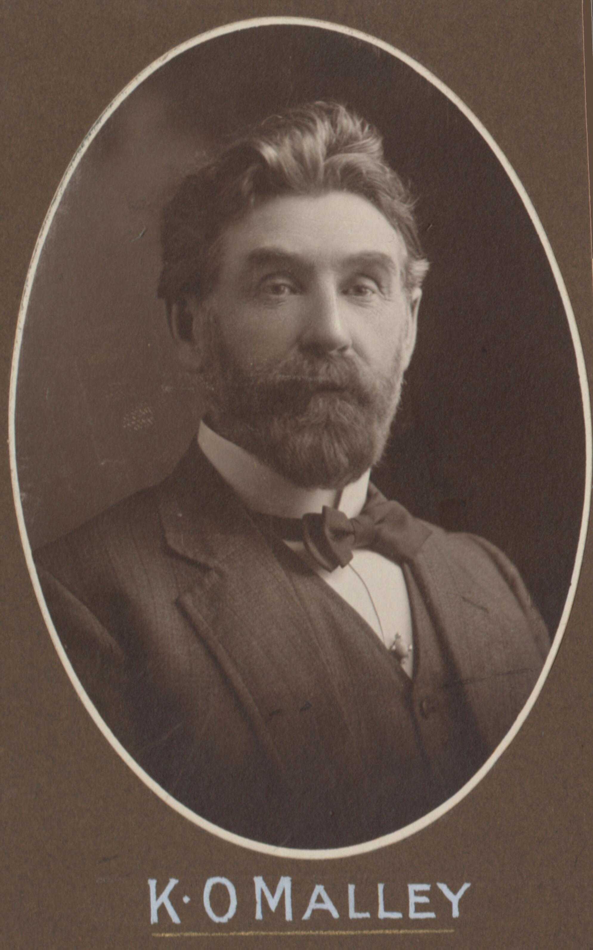 Australian politician King O'Malley